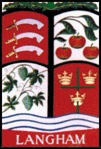 Langham Village Sign. Showing the crops historically grown in the village alongside SEAX symbol of Essex